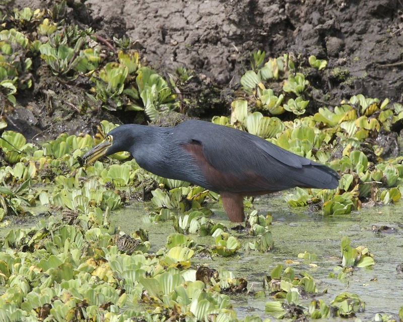 Rufous-bellied Heron Kiswahili: Kingoyo Tumbo-kahawia Masai Mara, Kenya, August 29, 2008 690V1964